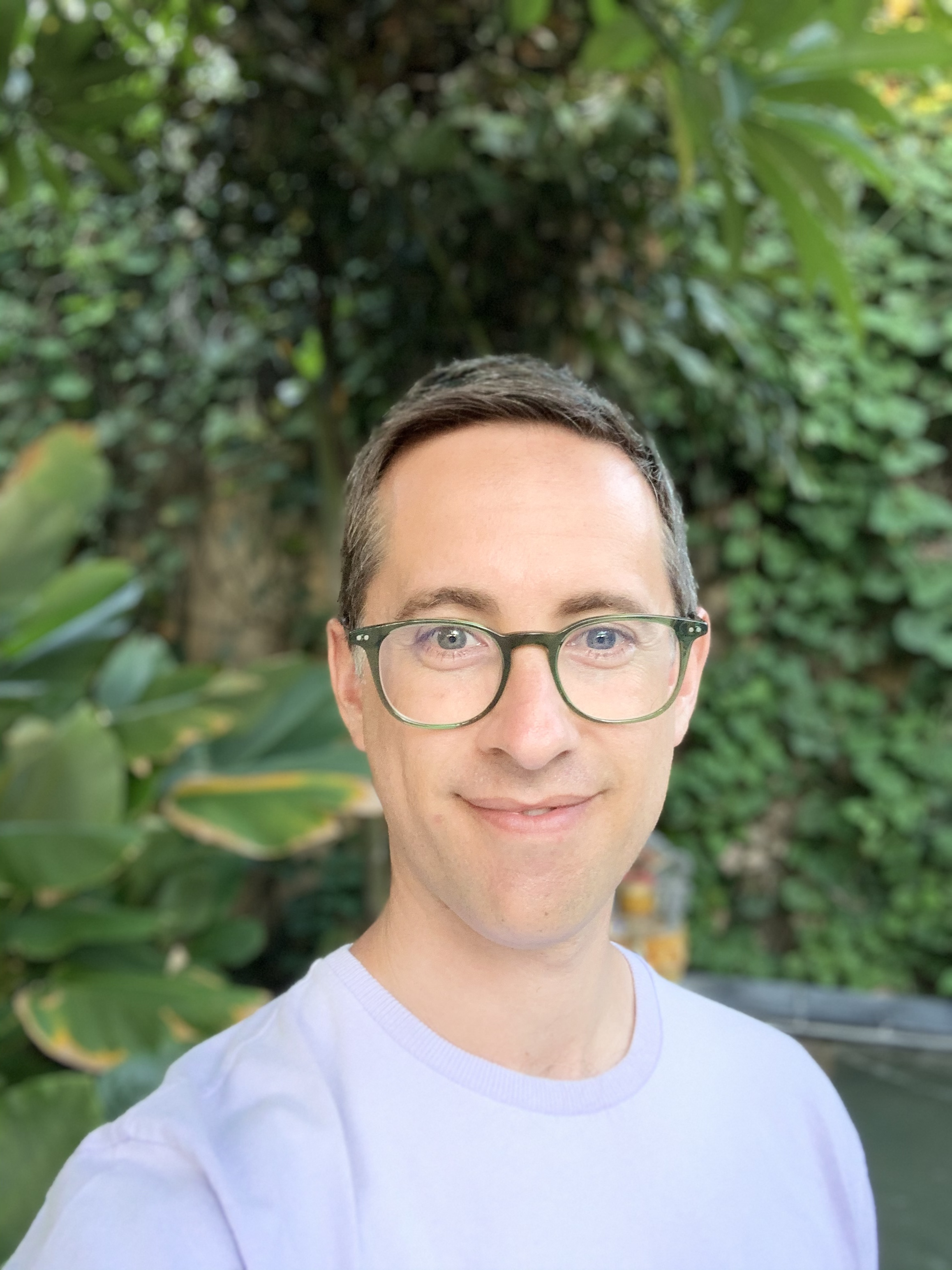 Photo of Jeremy Levitt taken on 17 January 2020.